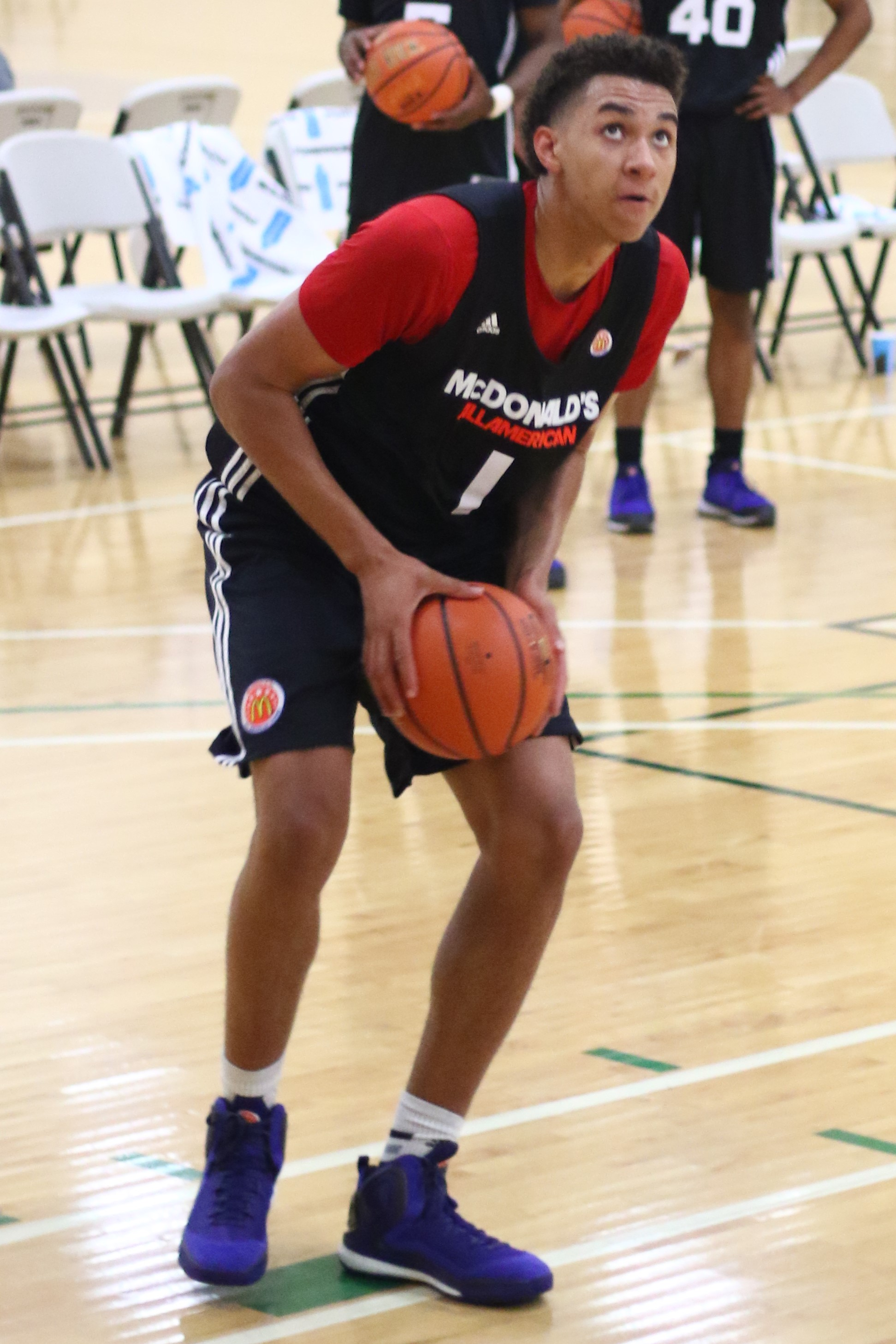 Chase Jeter in the w:2015 McDonald's All-American Boys Game closed practice